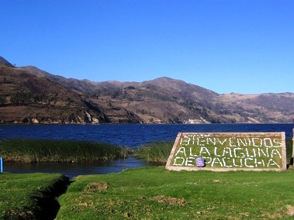 Beautiful lagoon in Andahuaylas - Apurimac